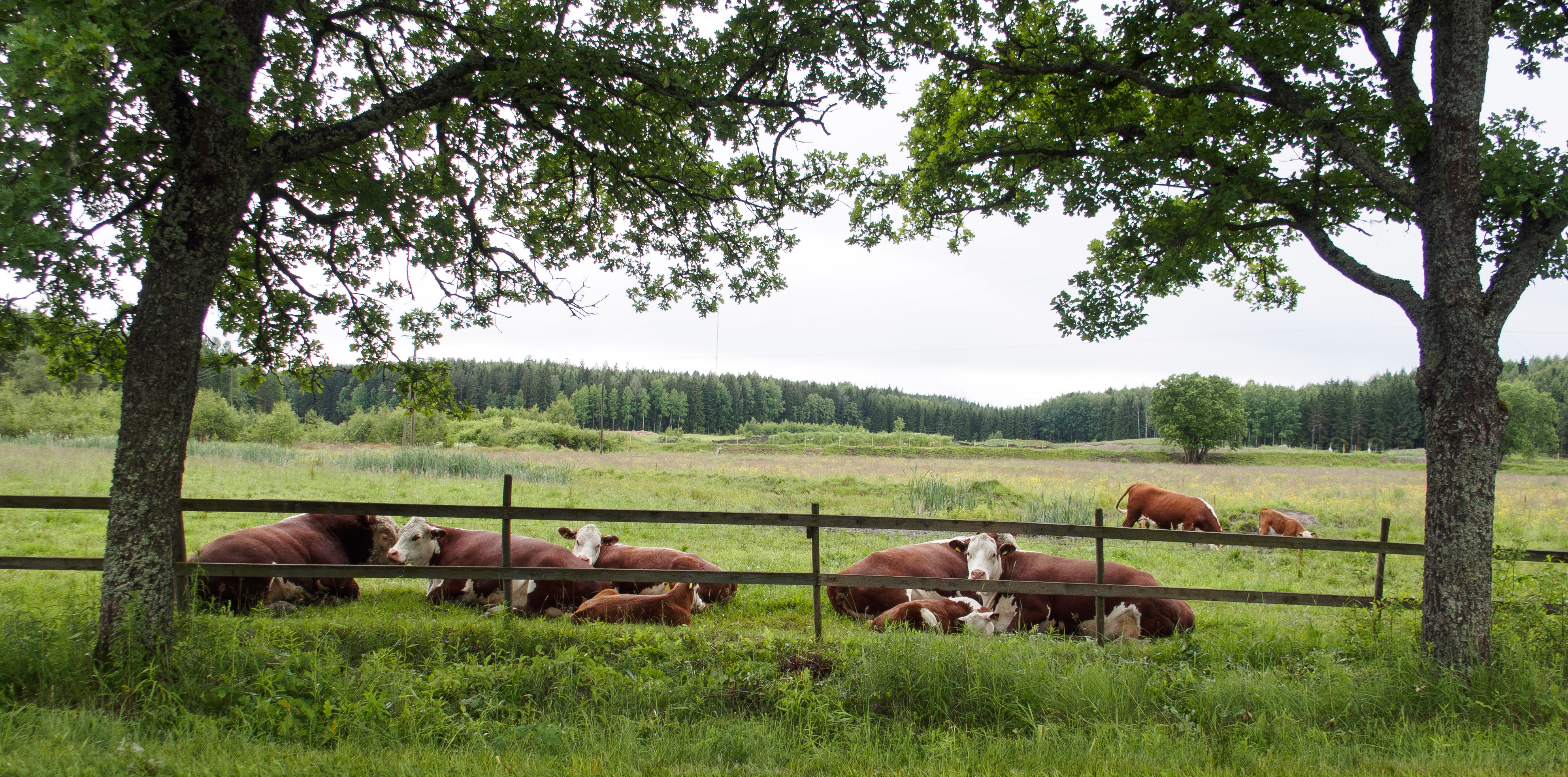 Organic beef cattle of the Koski manor, Perniö, Salo, Finland, June 2014.